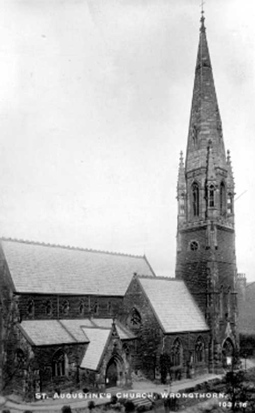 Dating from 1871, situated on Hyde Park Road. It was designed by J.B.Fraser.